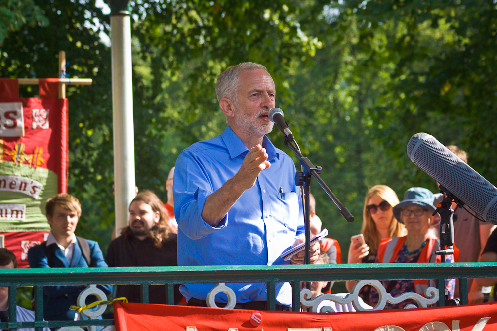 Jeremy Corbyn, Labour Leader, speaking at a political rally during the Labour leadership election, in Matlock, Derbyshire, 16th August 2016